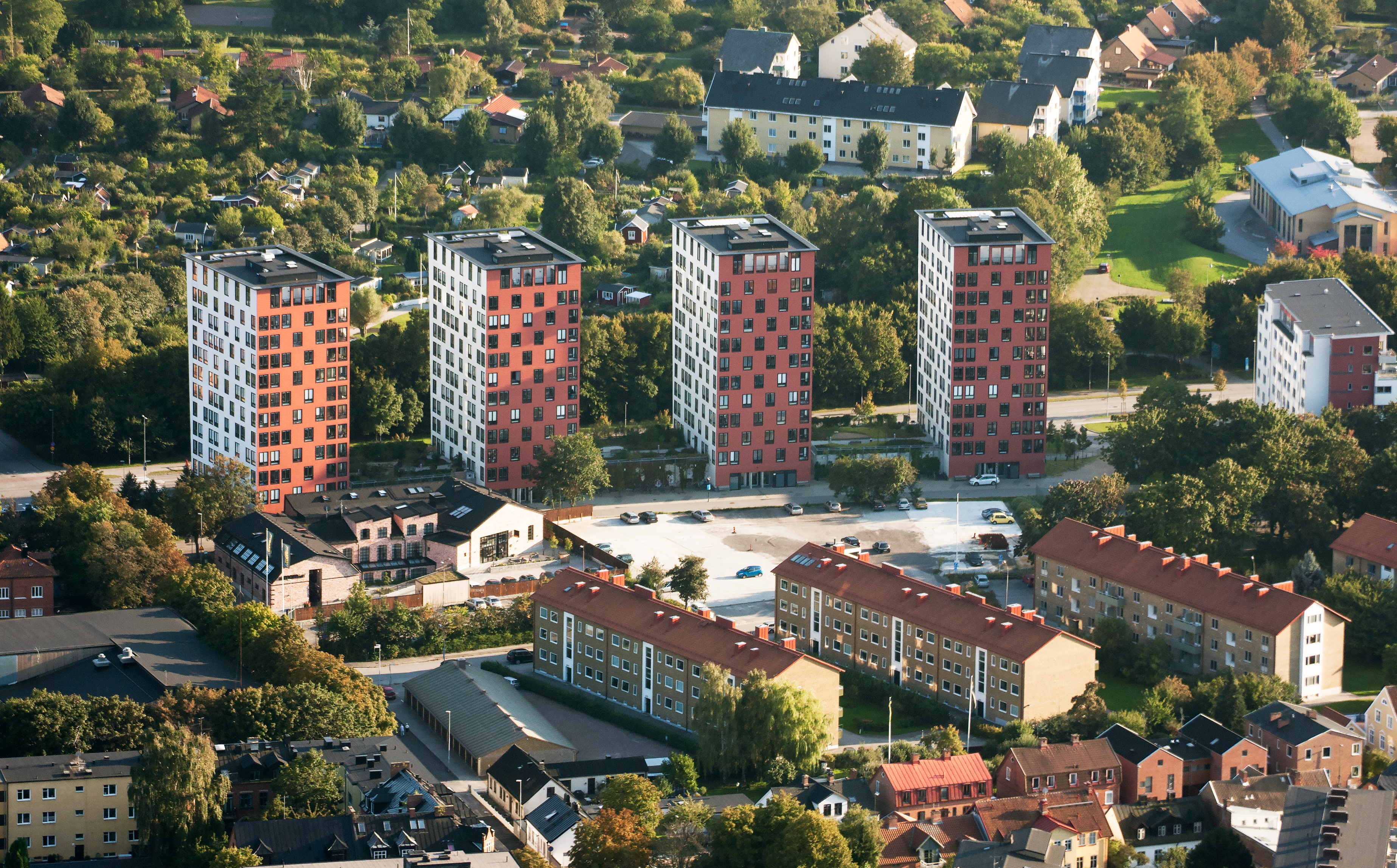 Margretedal neighbourhood in Lund, Sweden.